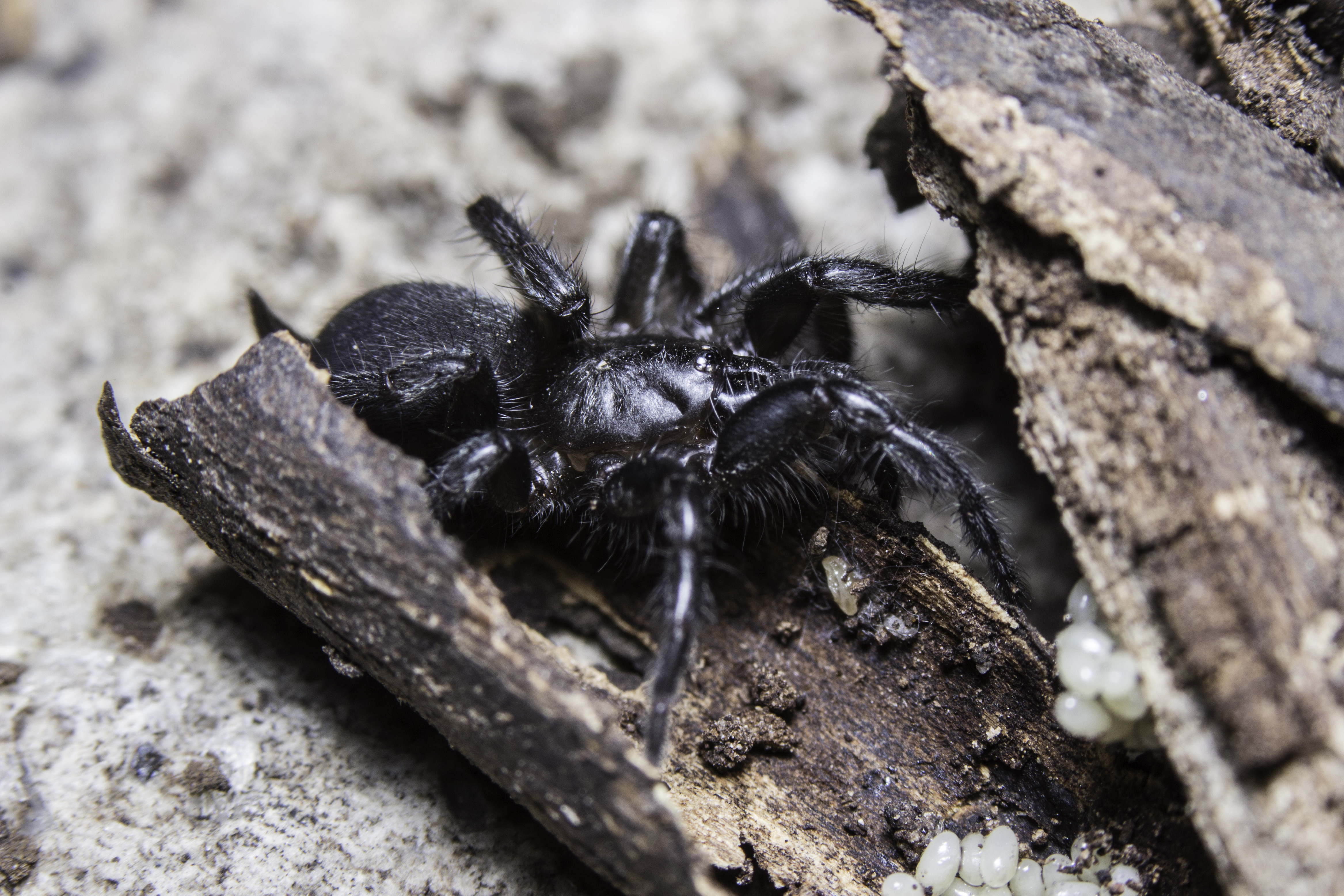 Member of Euagrus in Guadalajara, Mexico